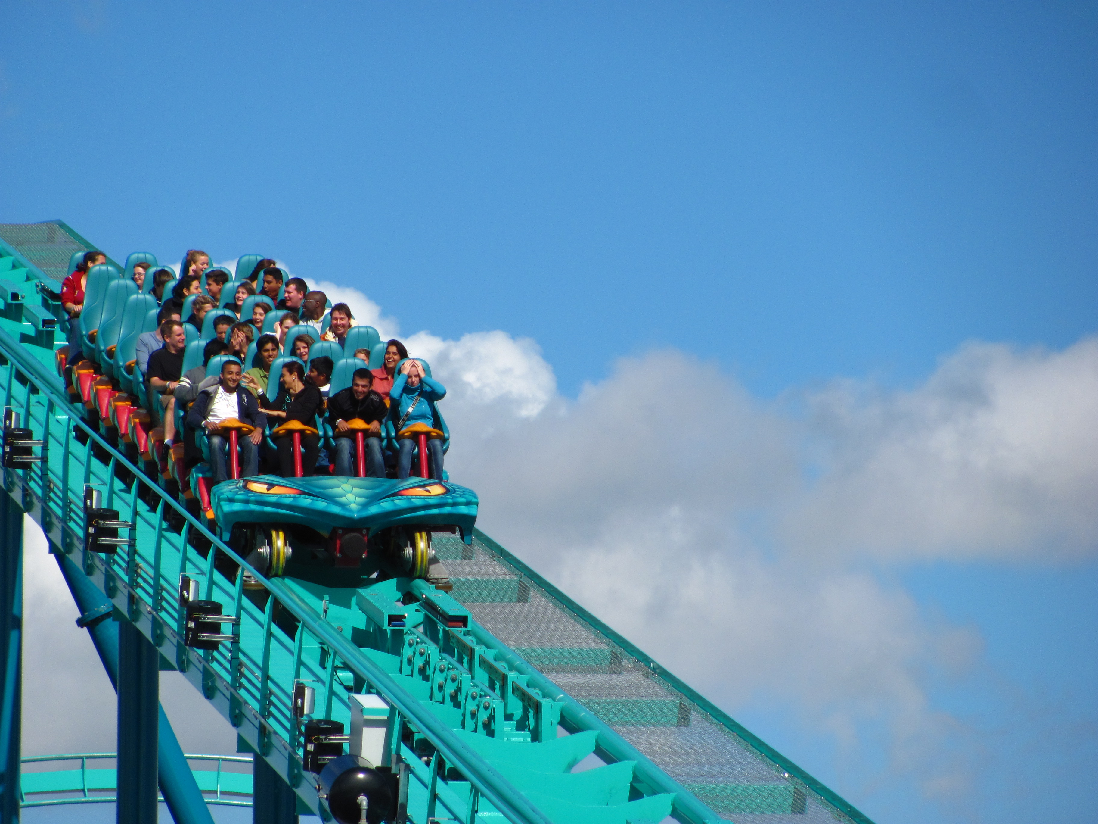 Canada's Wonderland 071